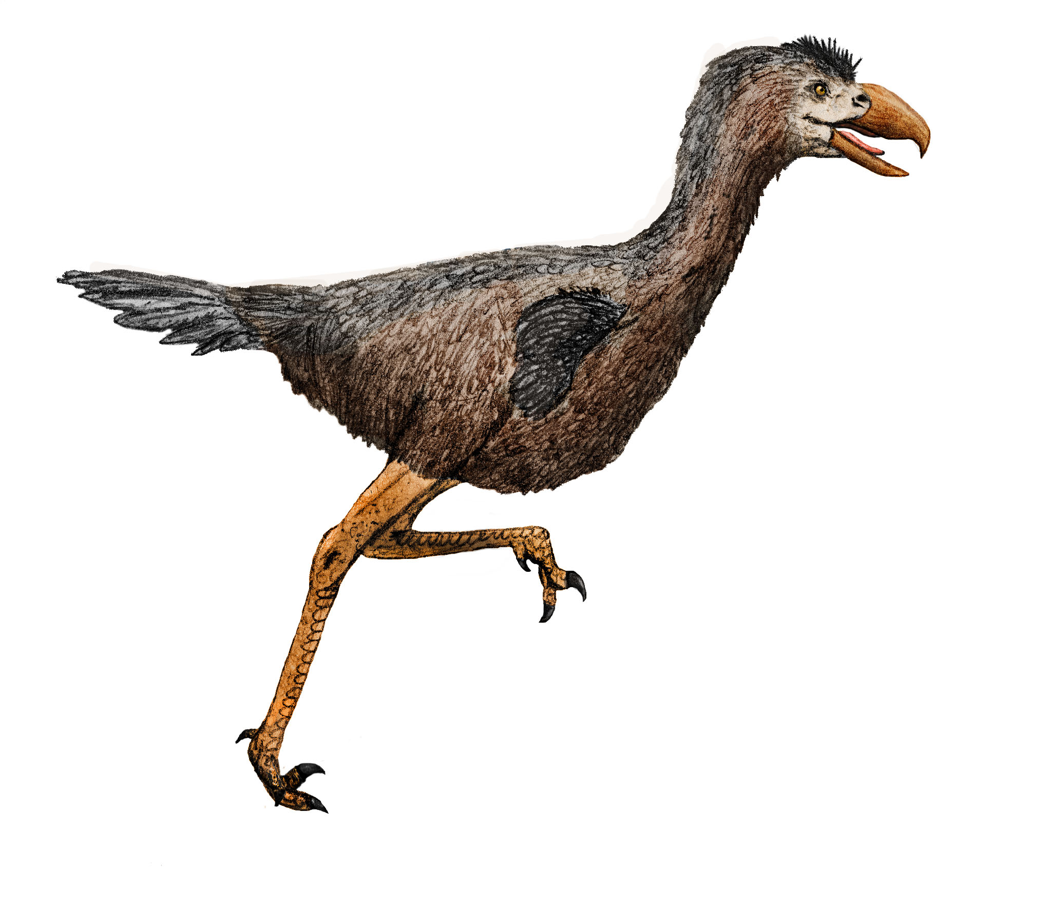 Life reconstruction of the phorusrhacid bird Llallaavis scagliai, from the Pliocene of Argentina.